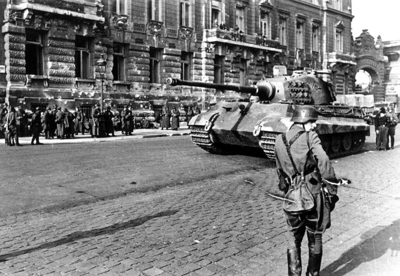 Location: The Castle district of Buda, on St. George Square, near the Royal Castle. The photo shows the façade of the Palace of Archduke Joseph August of Austria (earlier Palace of the Counts Teleki). The Palace does not exist any more, as it was severely damaged during the siege of 1944, and completely demolished in the 1960s. Date and time: On 15 or 16 October 1944, when the Arrow Cross Party seized power. Schwere Panzer-Abteilung 503. Only Tiger II unit to go to Budapest[1] ↑ Schneider, Tigers in Combat I, map of area of operations ISBN 9780811731713 Factual corrections and alternative descriptions are encouraged separately from the original description. Additionally errors can be reported at this page to inform the Bundesarchiv. Original historic description